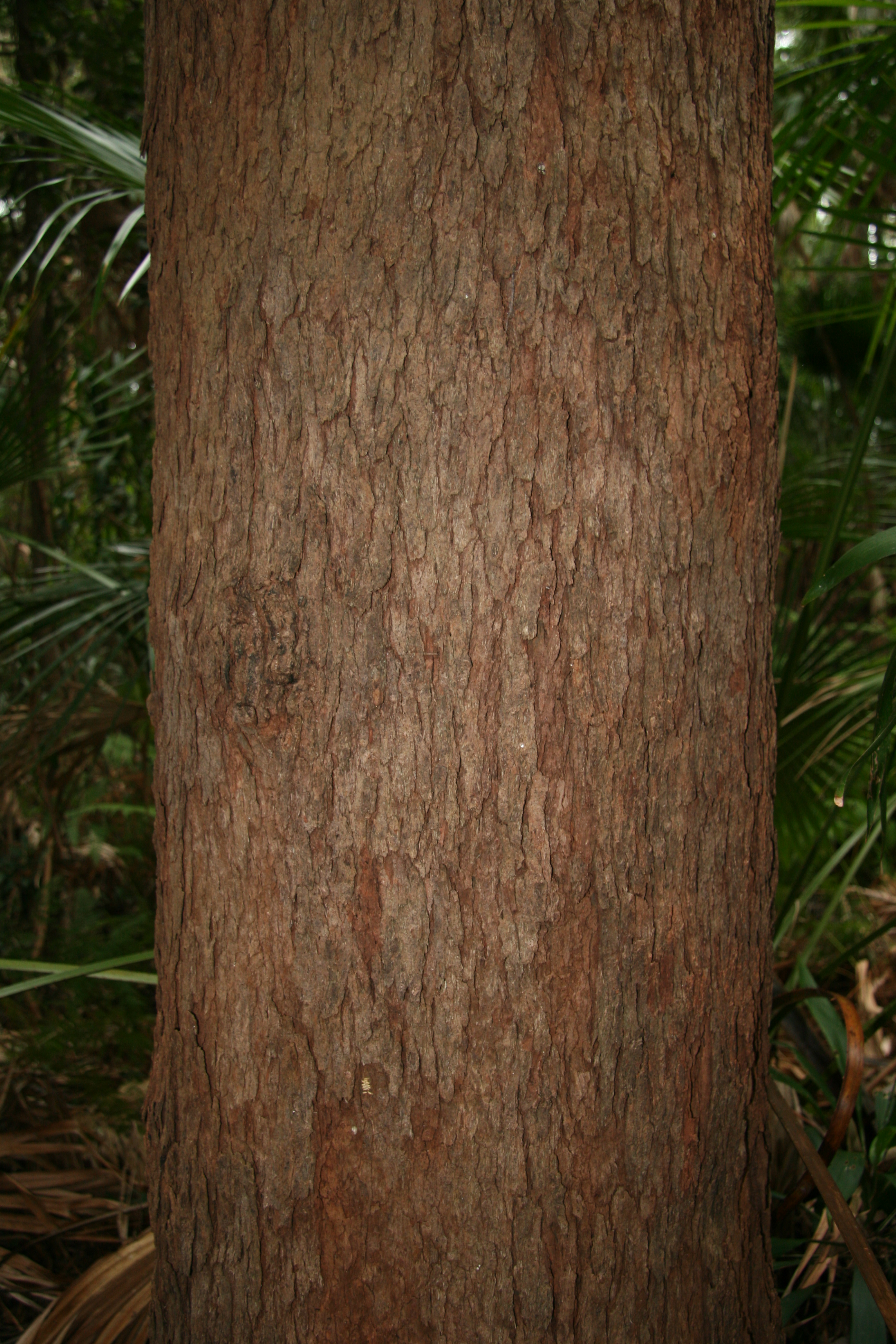 Corymbia intermedia (trunk), Alex Forest Conservation Area, Alexandra Headland, Sunshine Coast